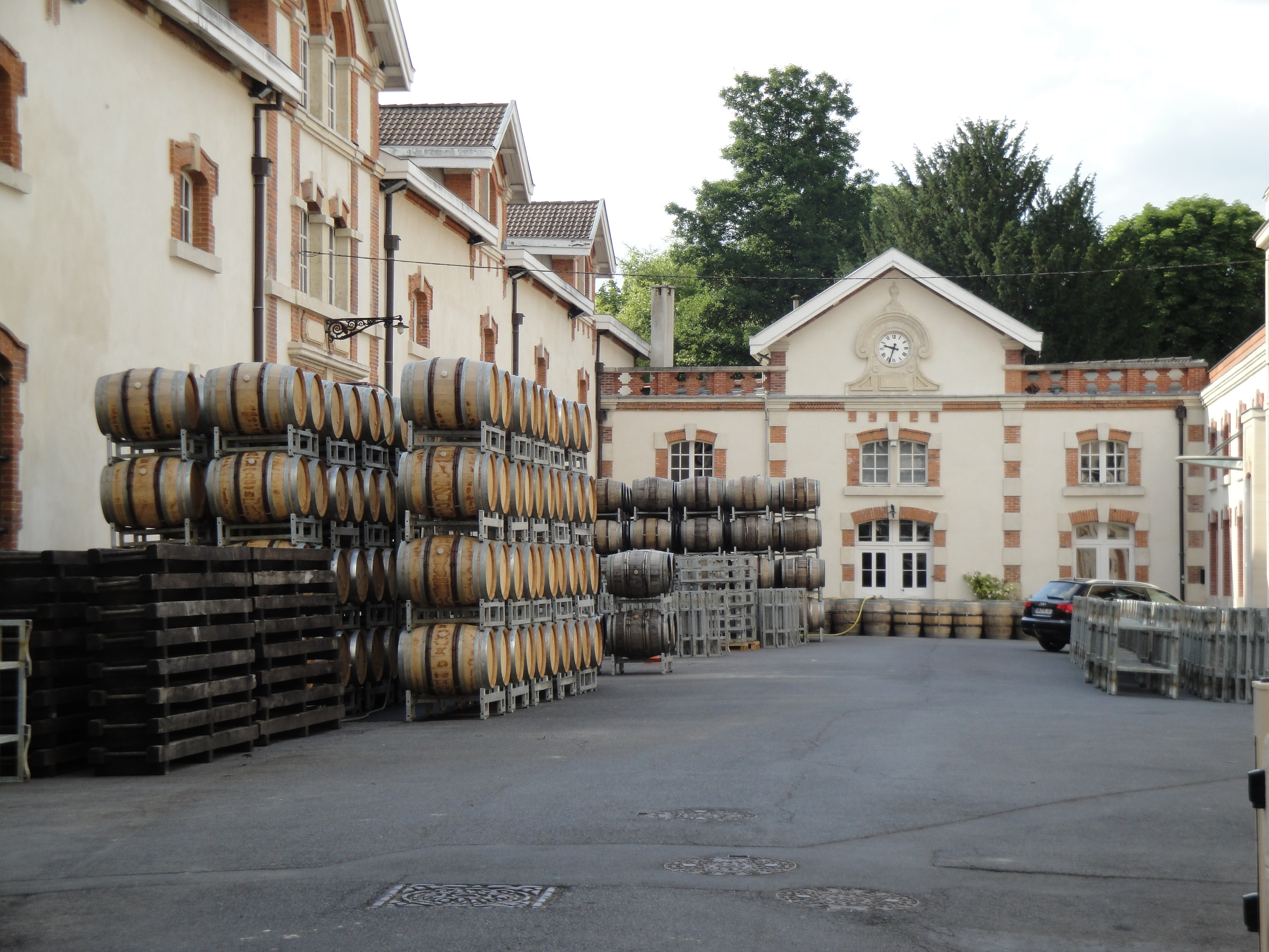 Courtyard of Champagne Krug's facilities in Reims. Storage of wine barrels waiting to be used.